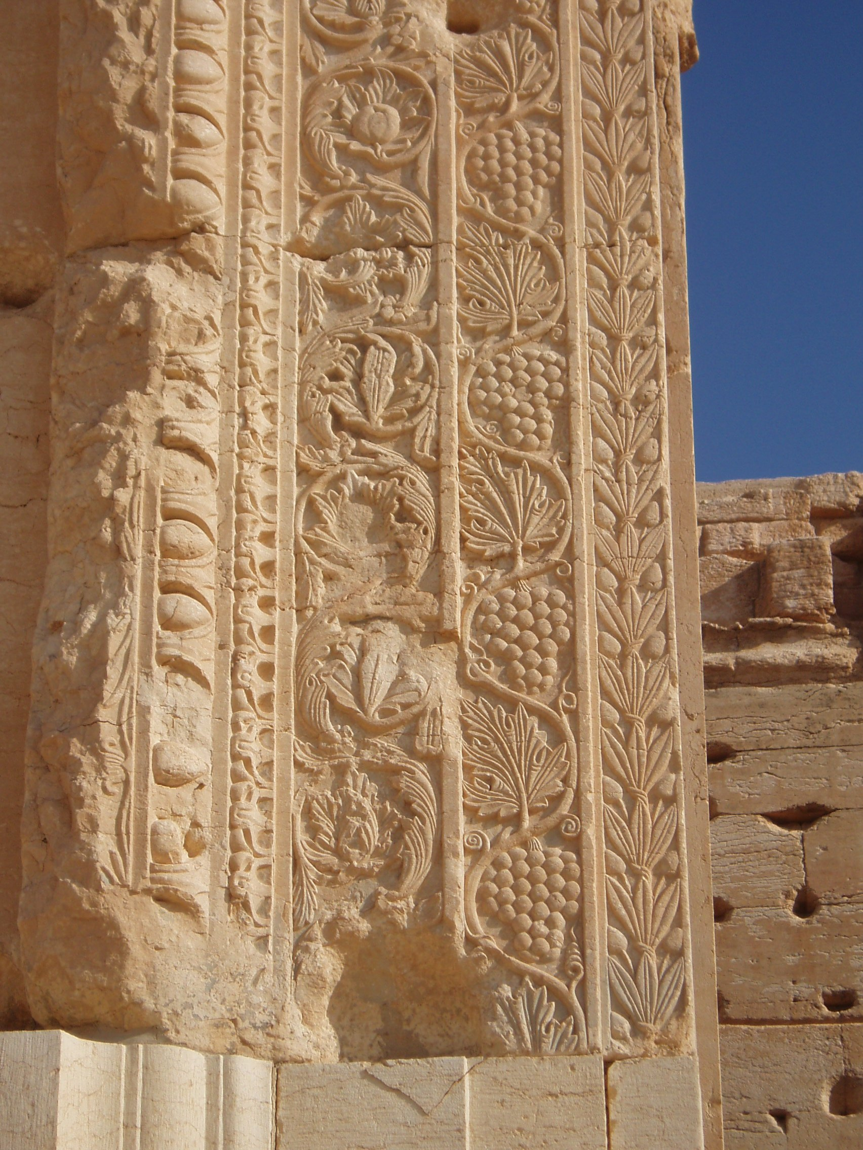 Carved grapes, Palmyra ruins